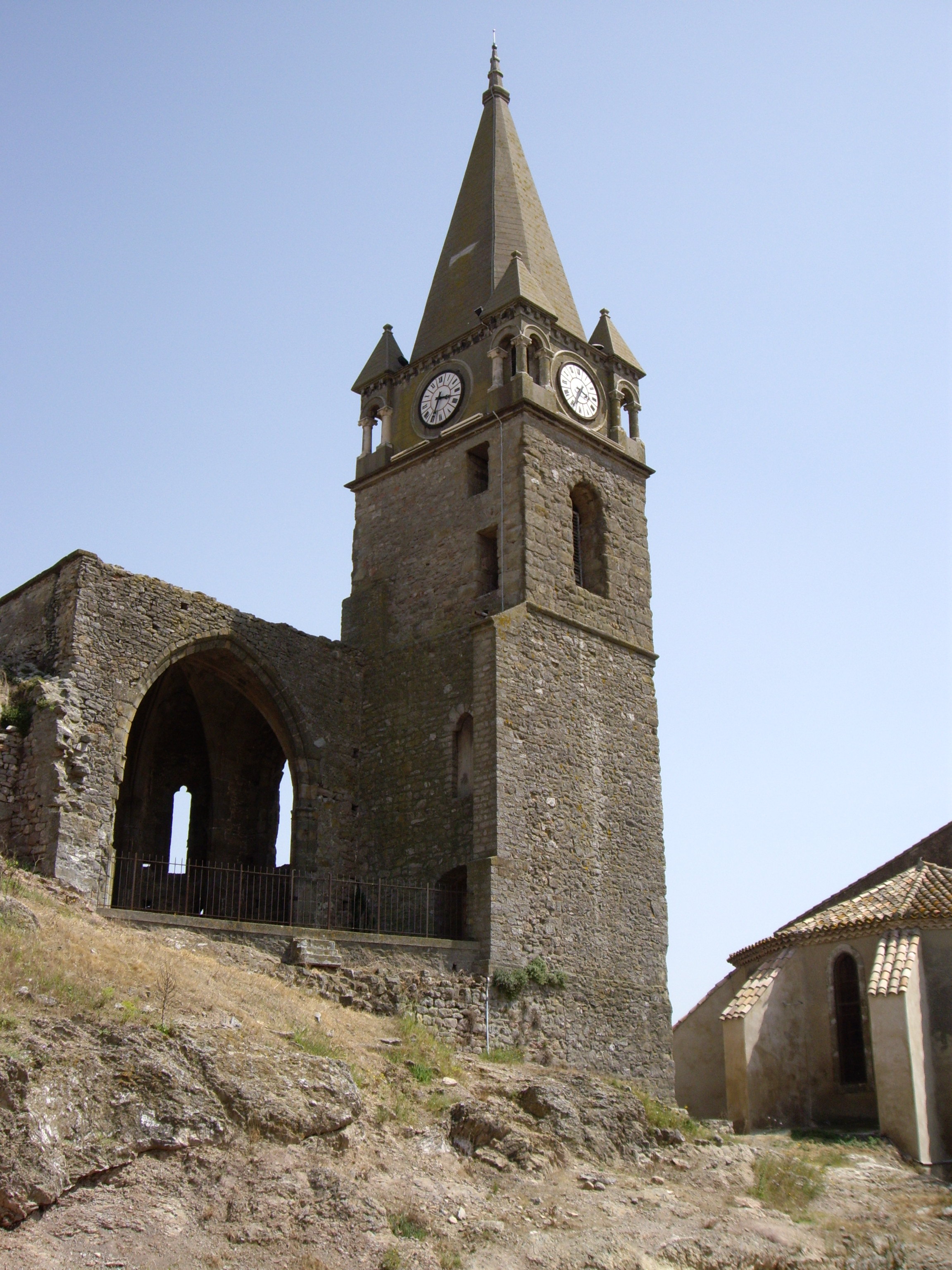 Capendu Clock Tower and ruins, Aude, France